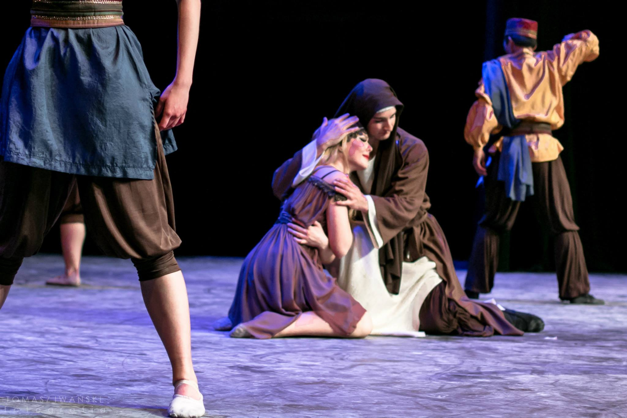 face to face, bible, christian, ballet